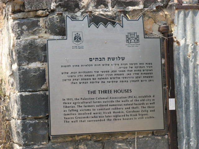 Memorial plate - the three houses - Tiberia